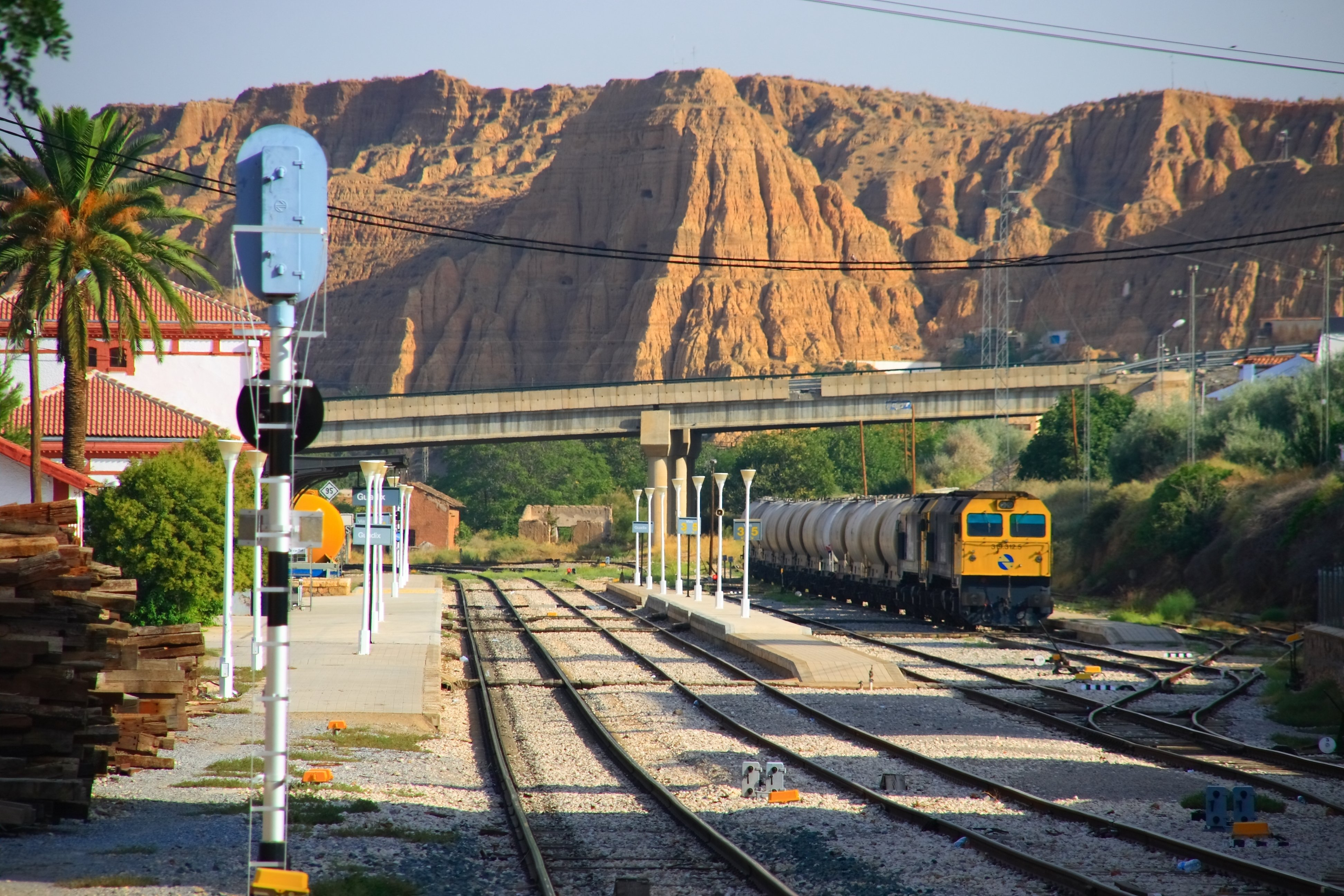 Train station in Guadix (Spain)